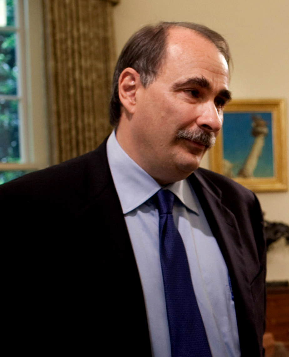 Senior advisor David Axelrod during a meeting in the Oval Office, May 29, 2009. (Official White House Photo by Pete Souza)